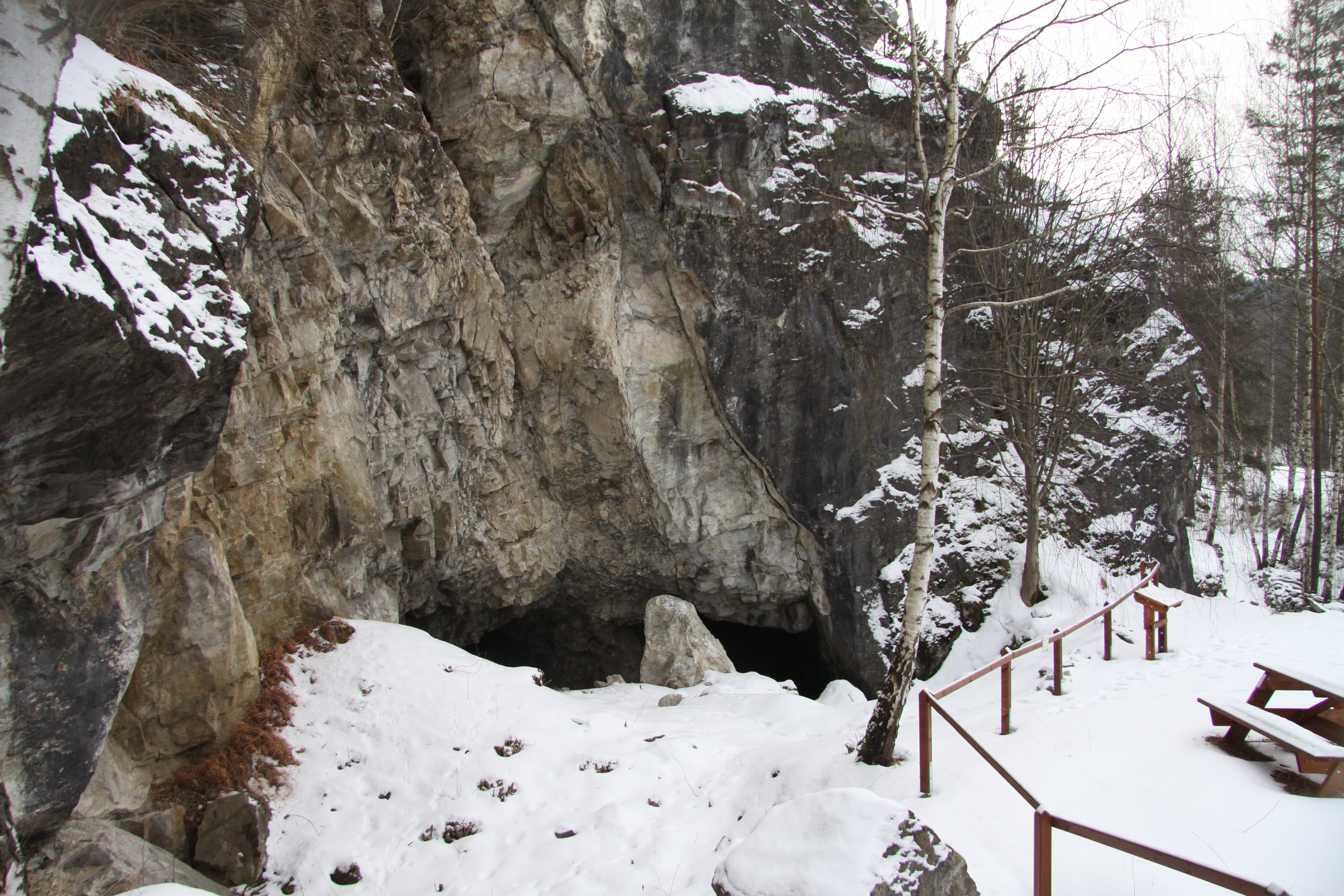 Sudslavická cave in natural reserve Opolenec in Prachatice District, Czech Republic